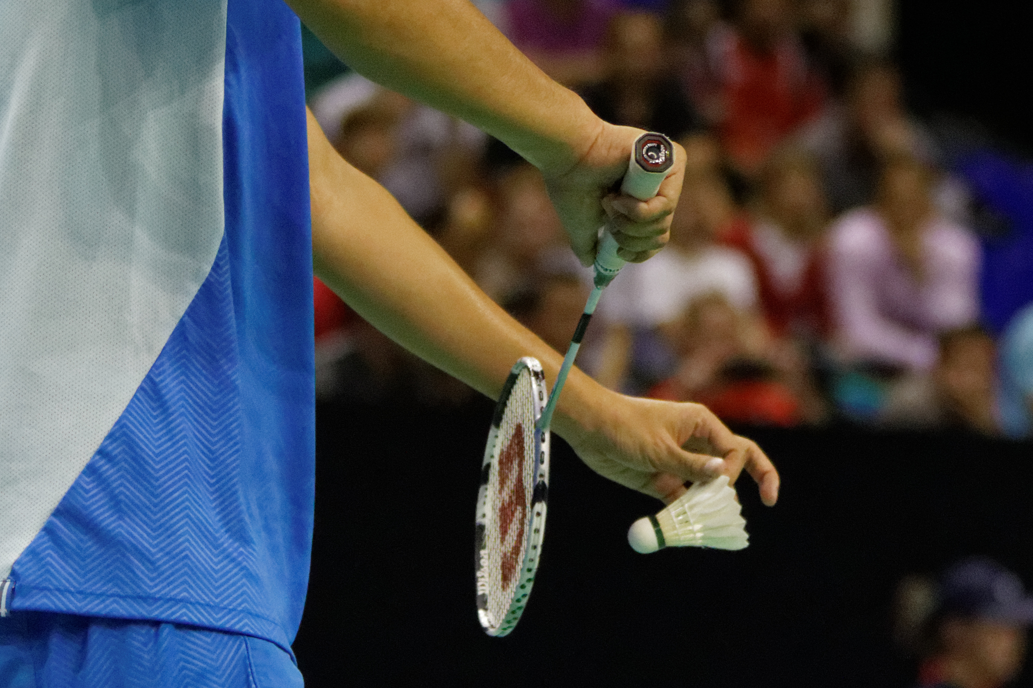 2013 French open. Men's singles quarterfinal. Lee Chong Wei vs Boonsak Ponsana.